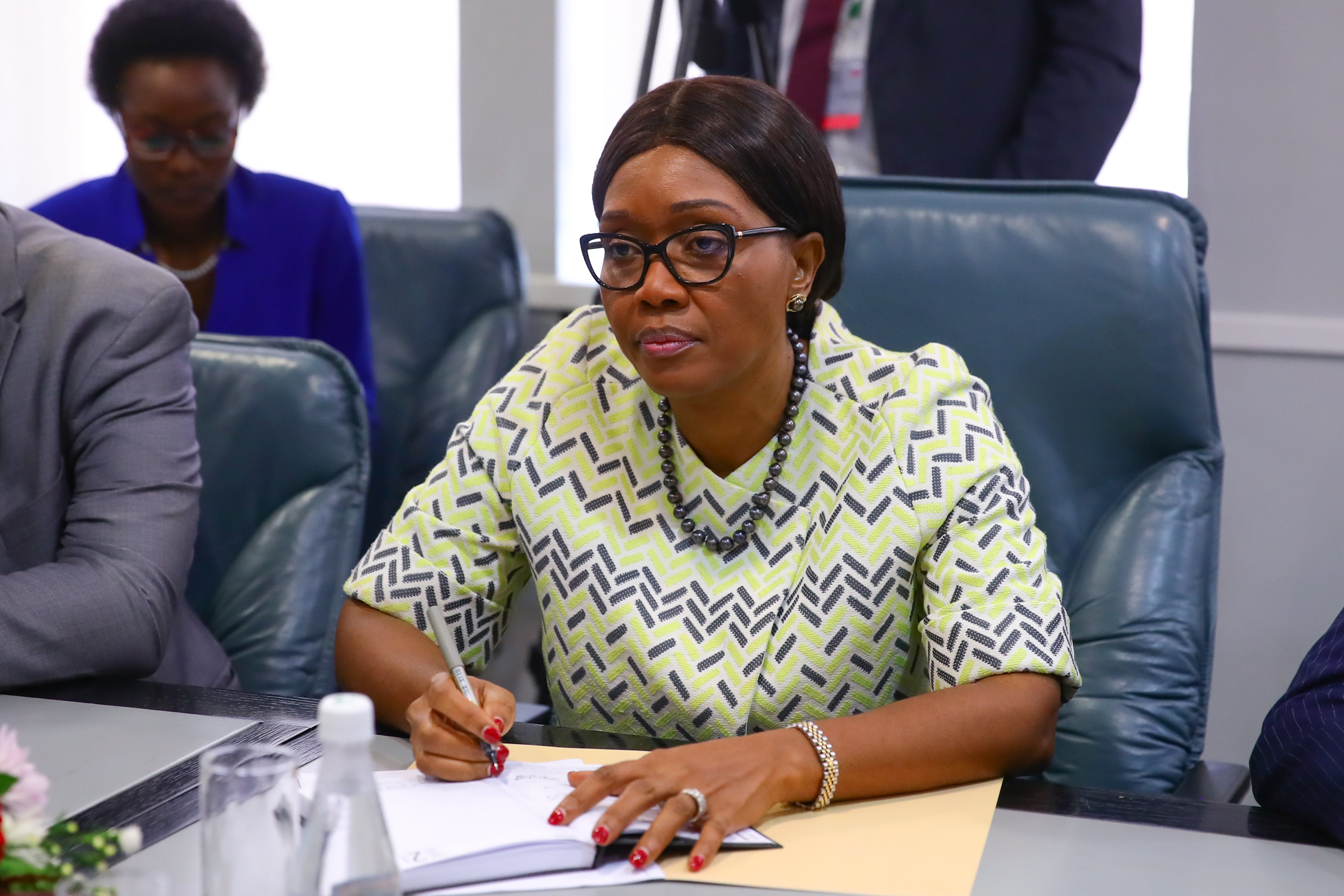 Saara Kuugongelwa-Amadhila (born 12 October 1967) is the fourth and current Prime Minister of Namibia